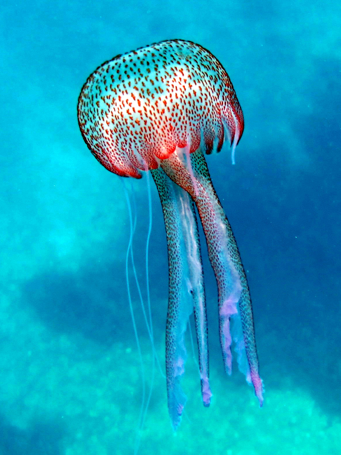 Pelagia noctiluca. Isola d'Elba